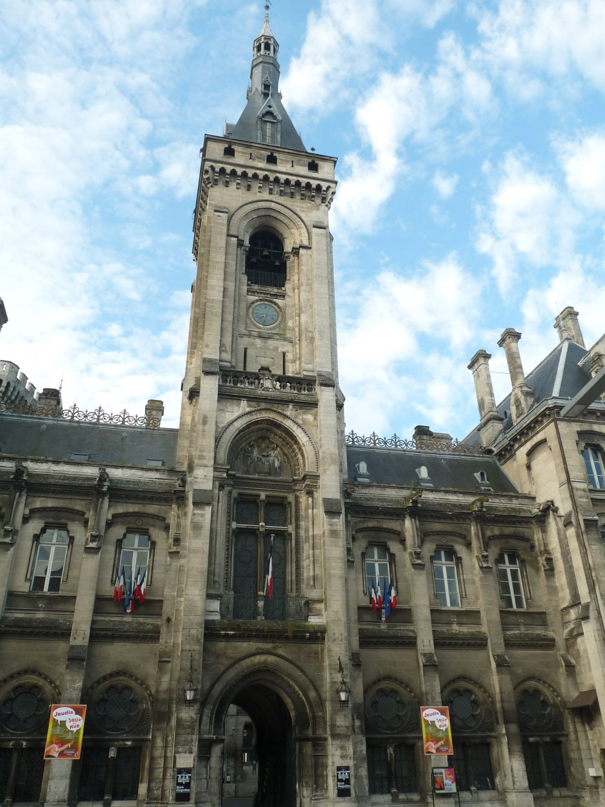 City hall of Angoulême, Charente, SW France